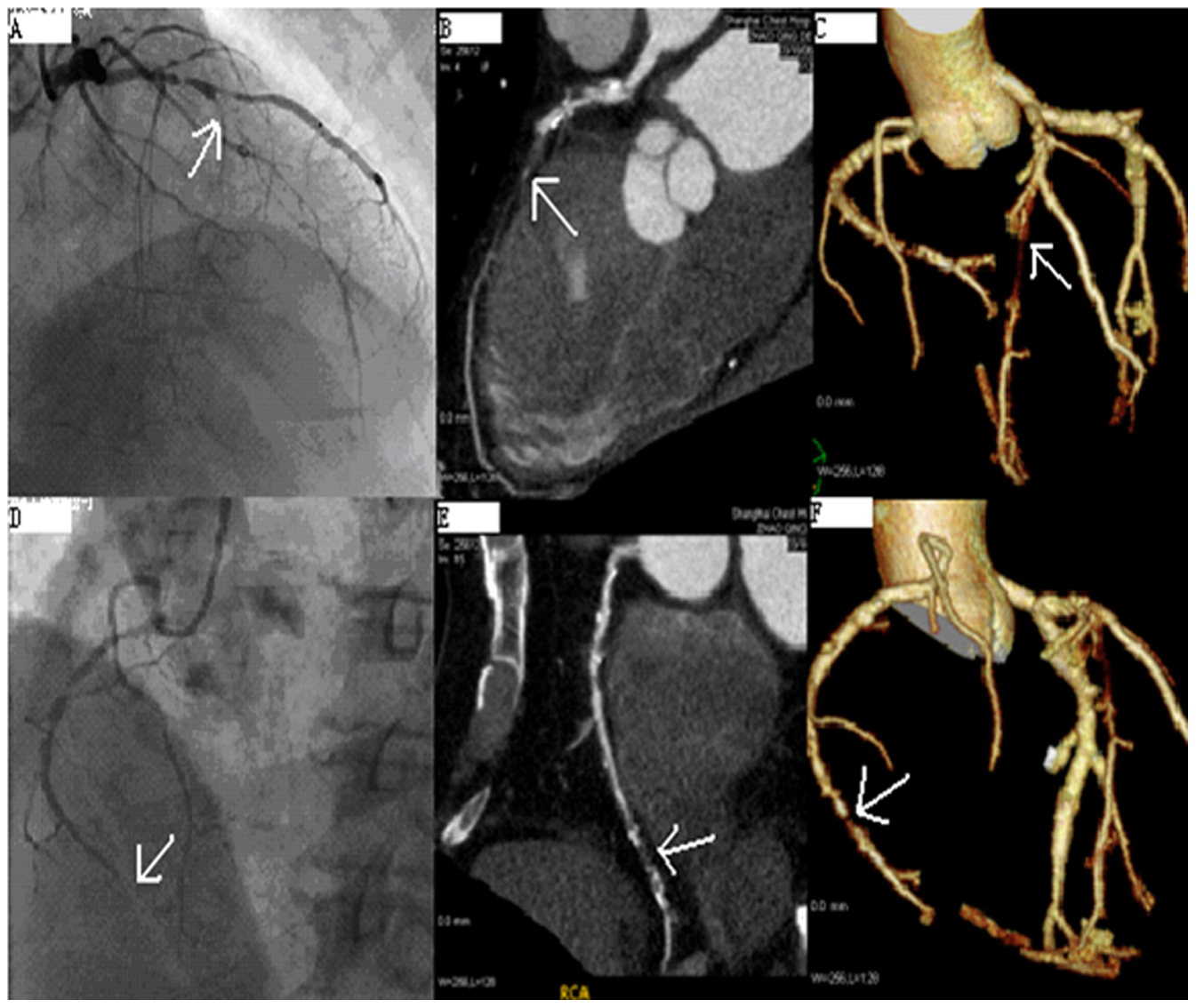 Representative Reconstructed Images of CTO Lesions at the Left Anterior Descending Coronary Artery (LAD) and Right Coronary Artery (RCA). 1A, 1D: Coronary angiography (CAG) image; 1B, 1E: Multiplanar reconstruction images; 1C, 1F: Three-dimensional volume rendering (Tree) image.